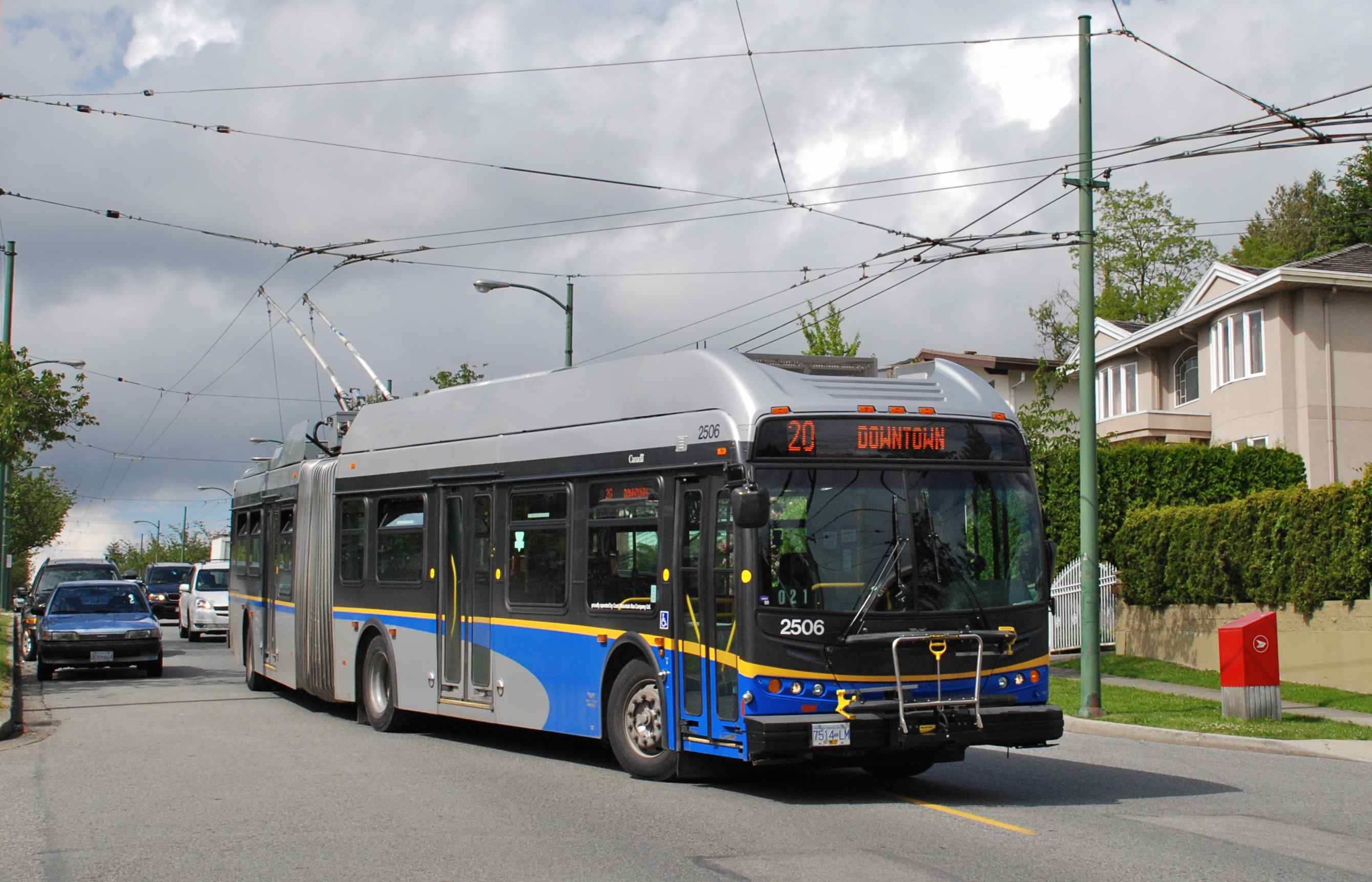 Low-floor trolleybus (or trolley bus) 2506 of Vancouver's TransLink is a New Flyer E60LFR, built in 2007. It is shown turning onto Harrison Drive from Victoria Drive, nearing the end of a trip on route 20-Victoria. Its destination sign has already been changed for its next trip, back to downtown Vancouver (the city centre). It has a bicycle rack on the front.